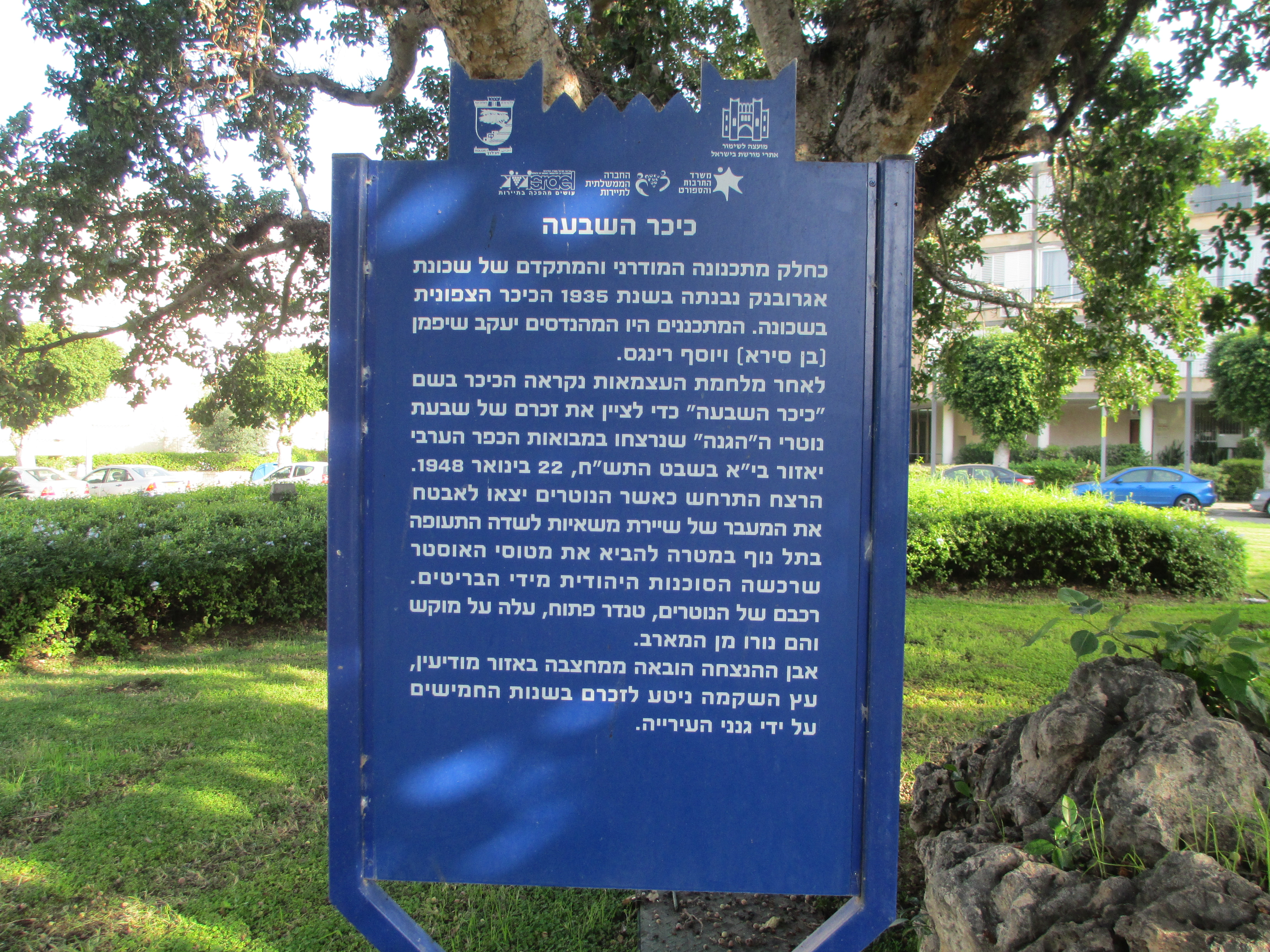 Memorial plaque in the seven square in Holon